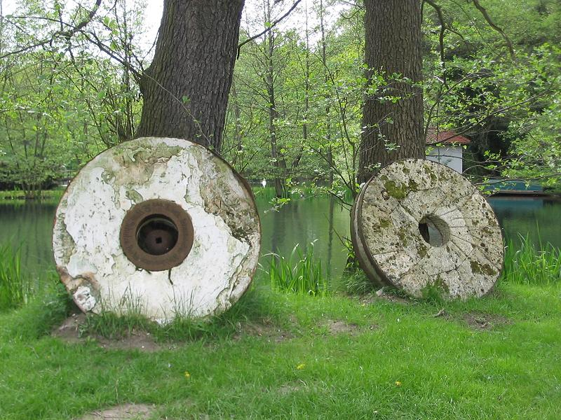 Mill stones at reconstructed Springbach-Mühle (watermill) in Belzig. Belzig is the central town of the district Potsdam-Mittelmark in the state Brandenburg of Germany. Belzig appertains to the natural preserve Naturpark Hoher Fläming.